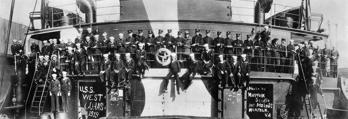 USS West Cohas (ID # 3253) Panoramic photograph of the ship's Officers and Crew, posed on the after end of her midships superstructure, 1919. Taken by the Norfolk Studio, Norfolk, Virginia. Note that the ship is wearing pattern camouflage. Donation of Louise Pace, 2007, from the collection of her father, Leigh S. Grant, who served in the Navy during and after World War I. U.S. Naval Historical Center Photograph.